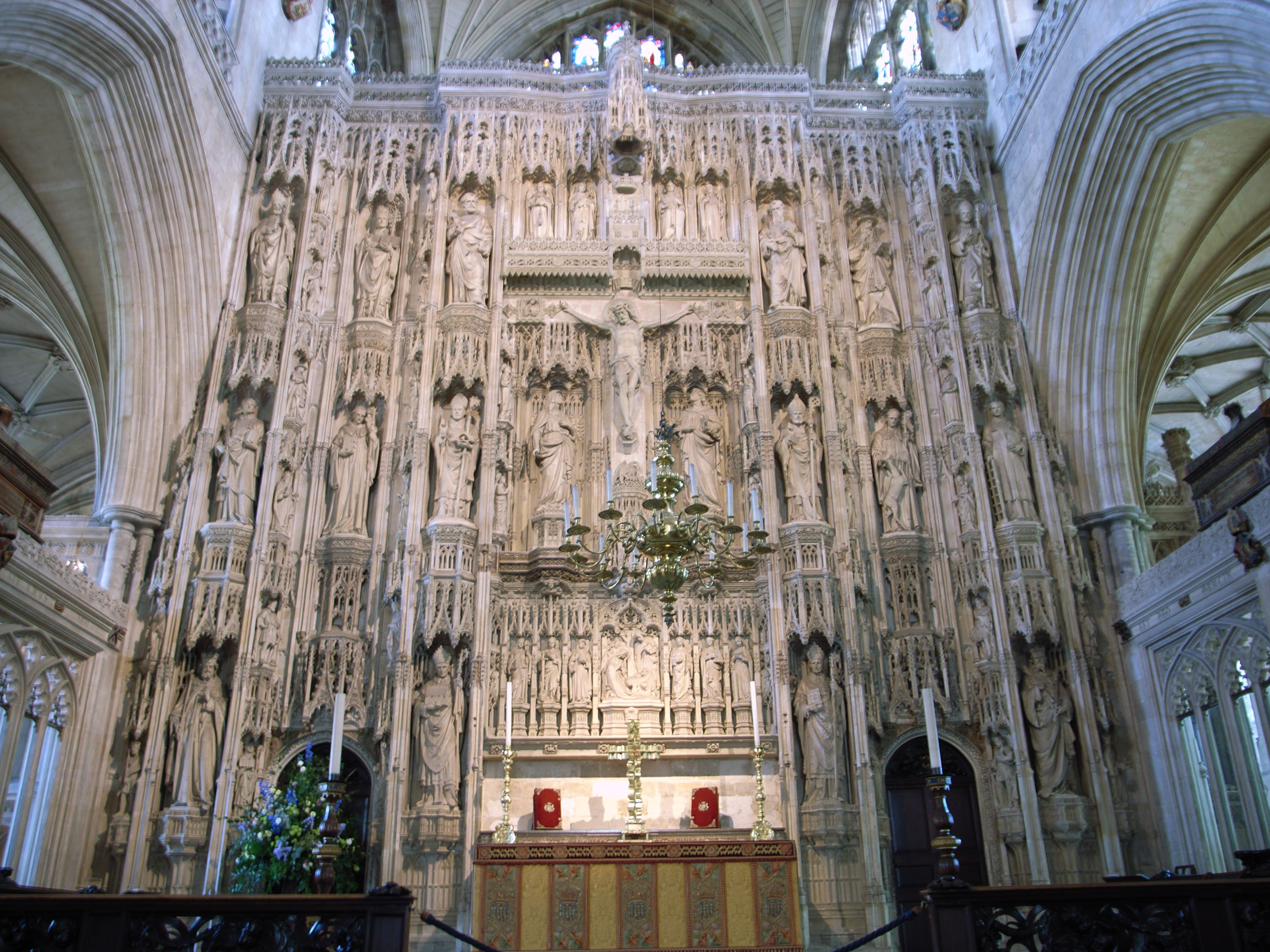 Winchester Cathedral, Winchester, England. The High Altar and Great Screen (late 15th century with 19th century sculputure).